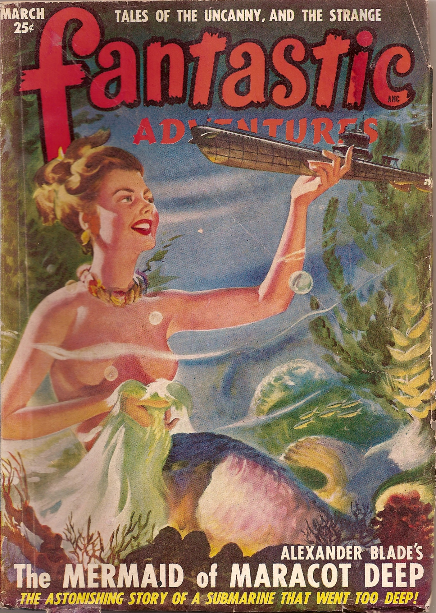 Cover of March 1949 issue of Fantastic Adventures. Artist is Alexander Kohn. Copyright was either Kohn, or more likely Ziff-Davis, who published the magazine.